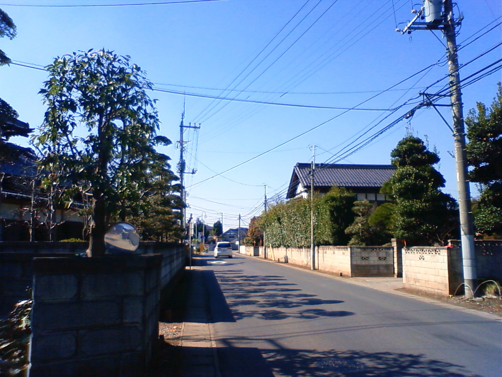 This is a landscape of Onozaki, Tsukuba, Ibaraki, Japan.